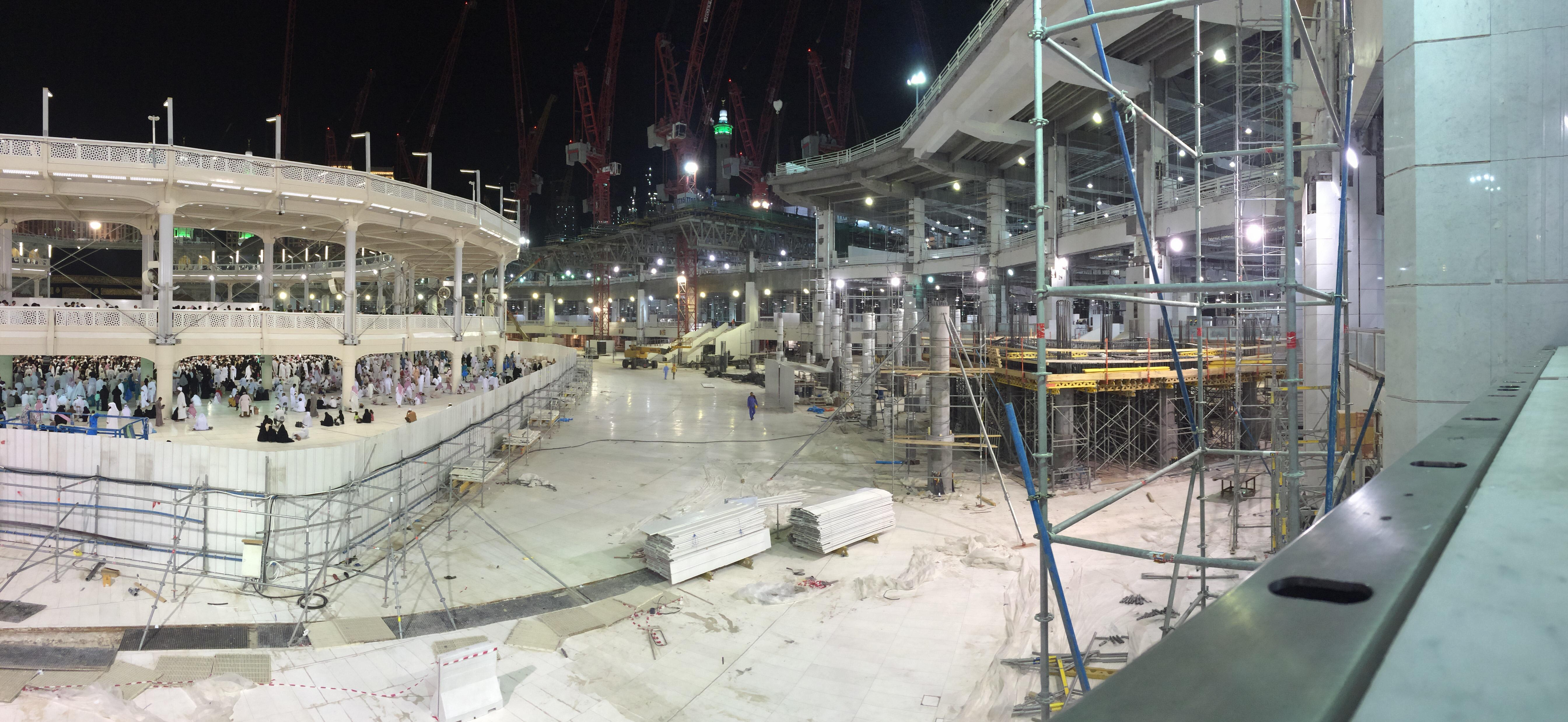 A view of the ongoing construction and the temporary steel circuit in August 2014